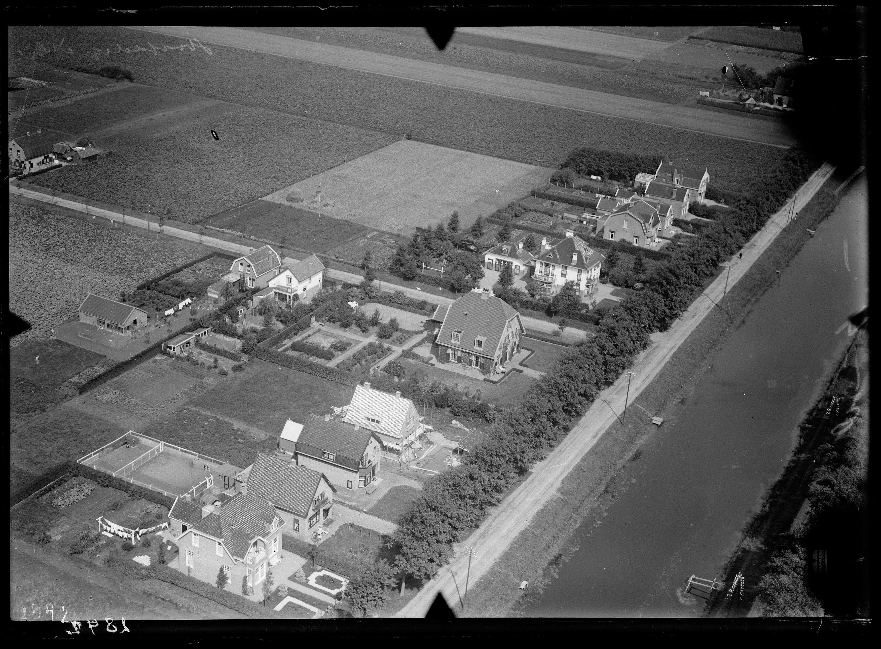 Aerial photograph of Hoofddorp, The Netherlands